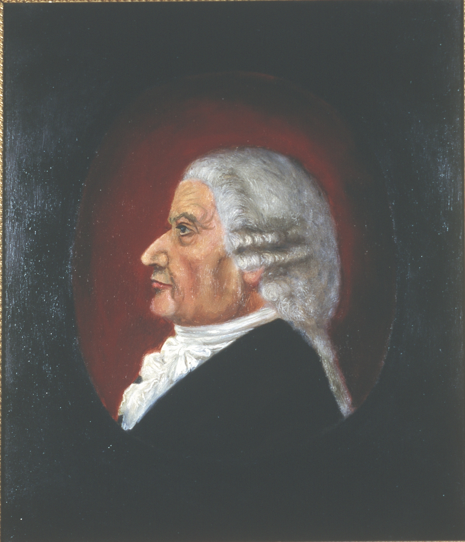 Depicted person: Anders Lysgaard – member of the Parliament of Norway (1756-1827)